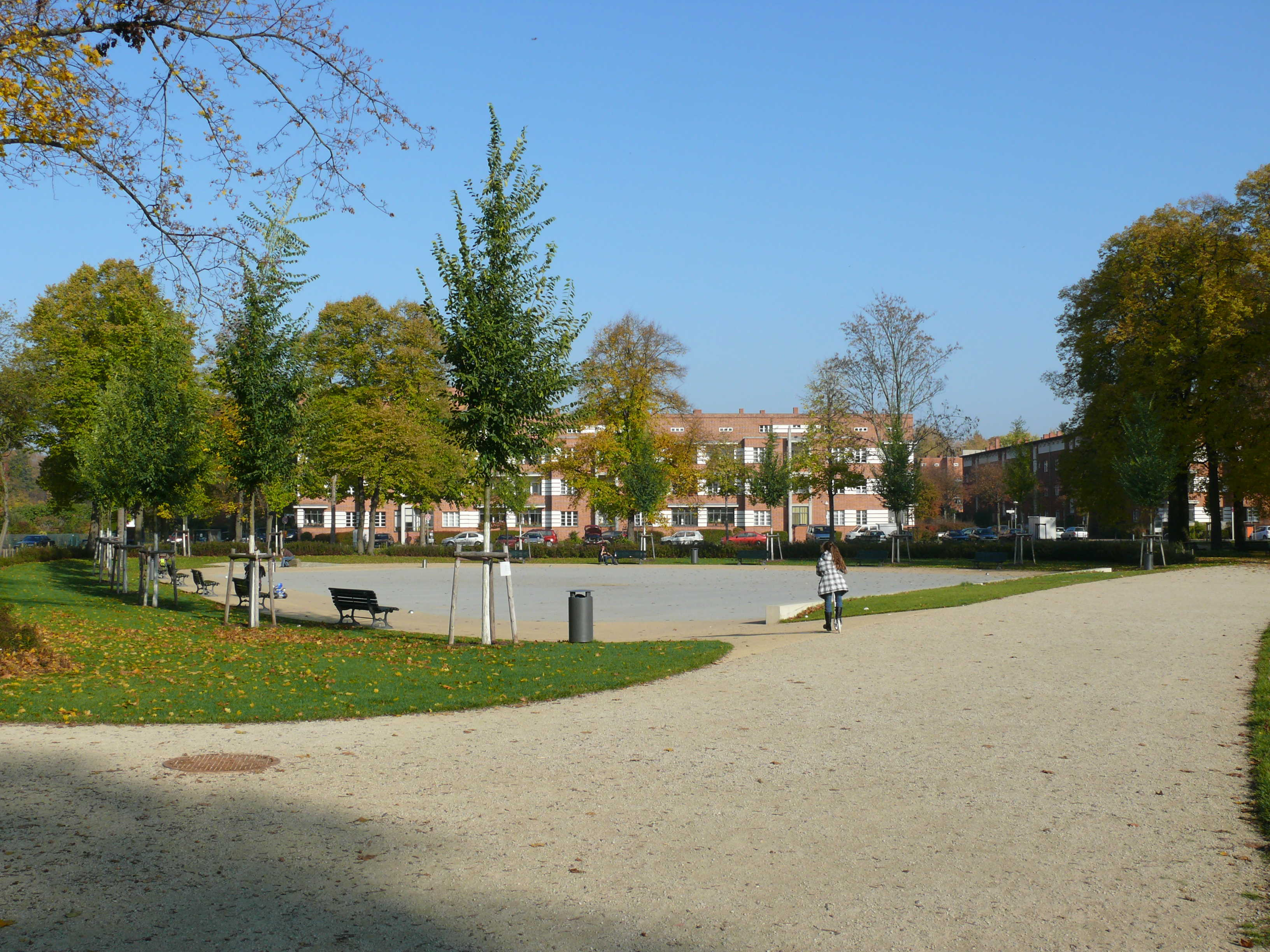 Berlin-Wedding Schillerpark